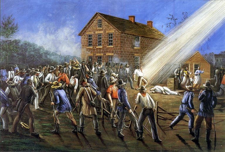 "Exterior of Carthage Jail" by C.C.A. Christensen depicting the death of Joseph Smith, Jr. By some accounts Smith was shot several times after he fell from the window, but a beam of sunlight from parting clouds prevented a mobster from decapitating Smith's body.